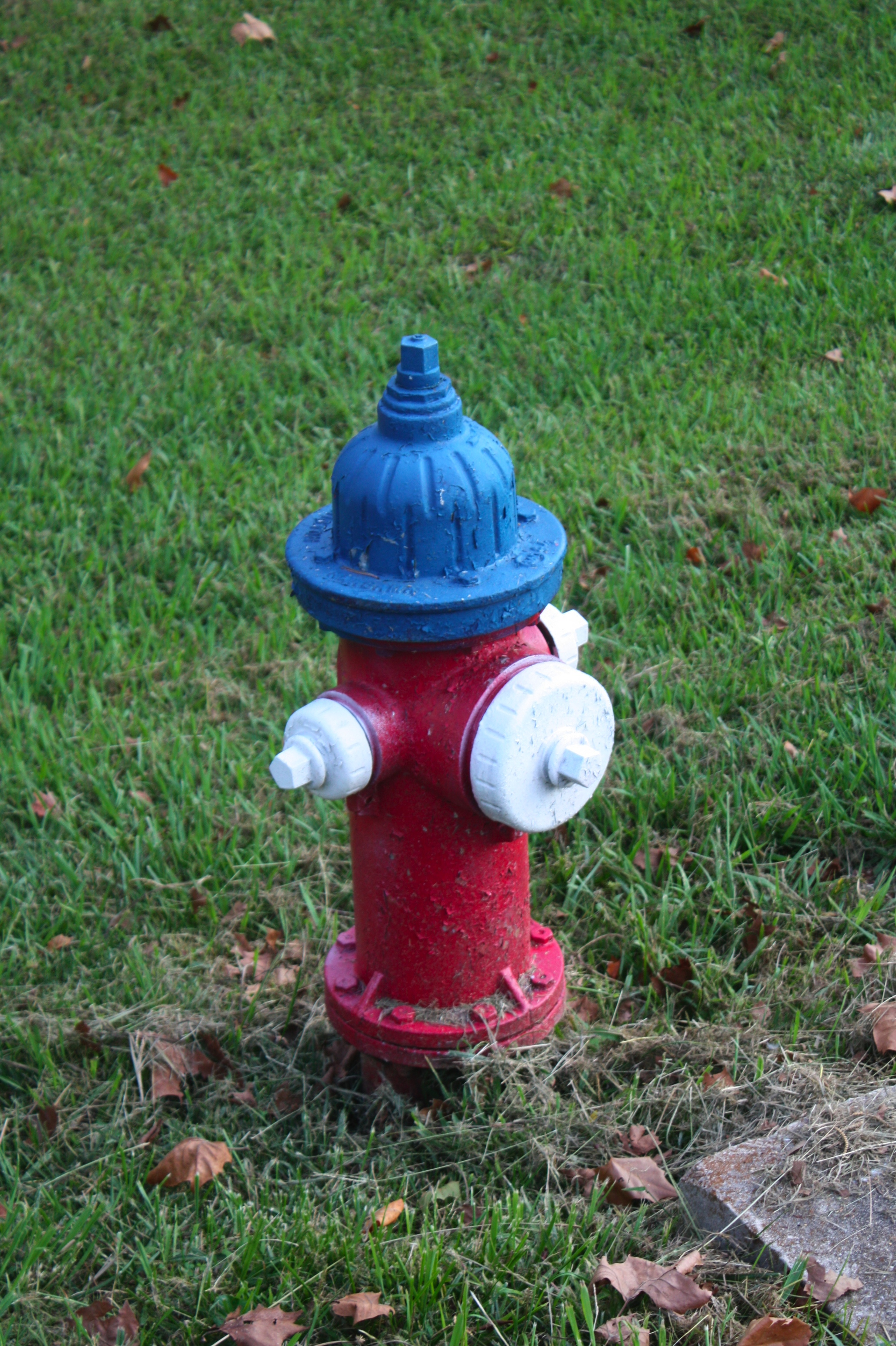 a photograph of a colorful fire hydrant in Demorest, Georgia